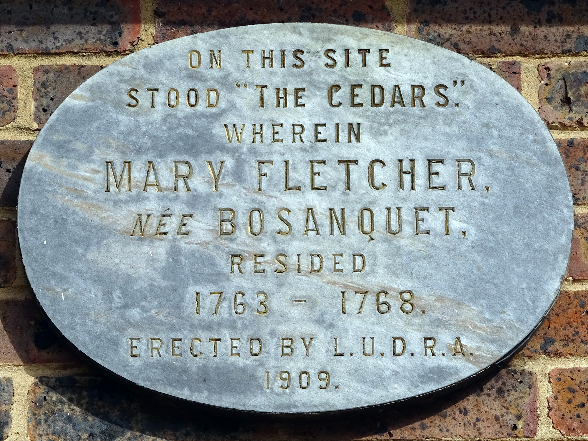 Plaque erected in 1909 by the Leyton Urban District Ratepayers' Association at the site of "The Cedars" Lister Road, Leytonstone, E11 3DS